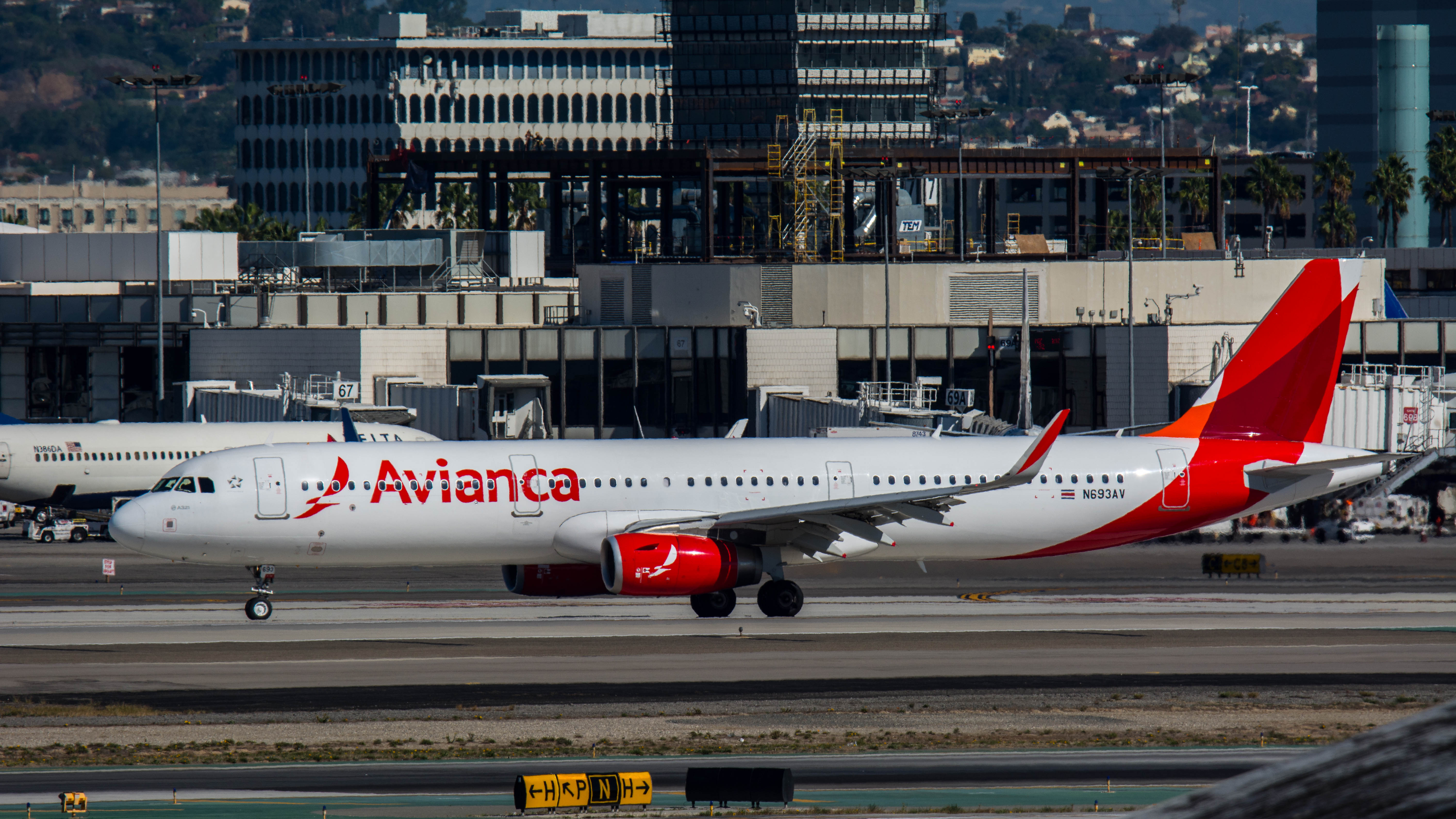 Avianca Airbus A321 at Los Angeles International Airport